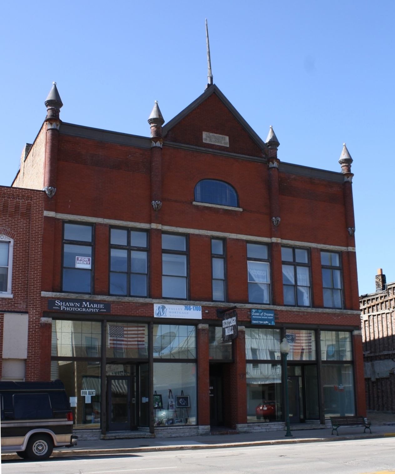 The Lindauer and Rupert Block in Kaukauna, Wisconsin, listed on the National Register of Historic Places.